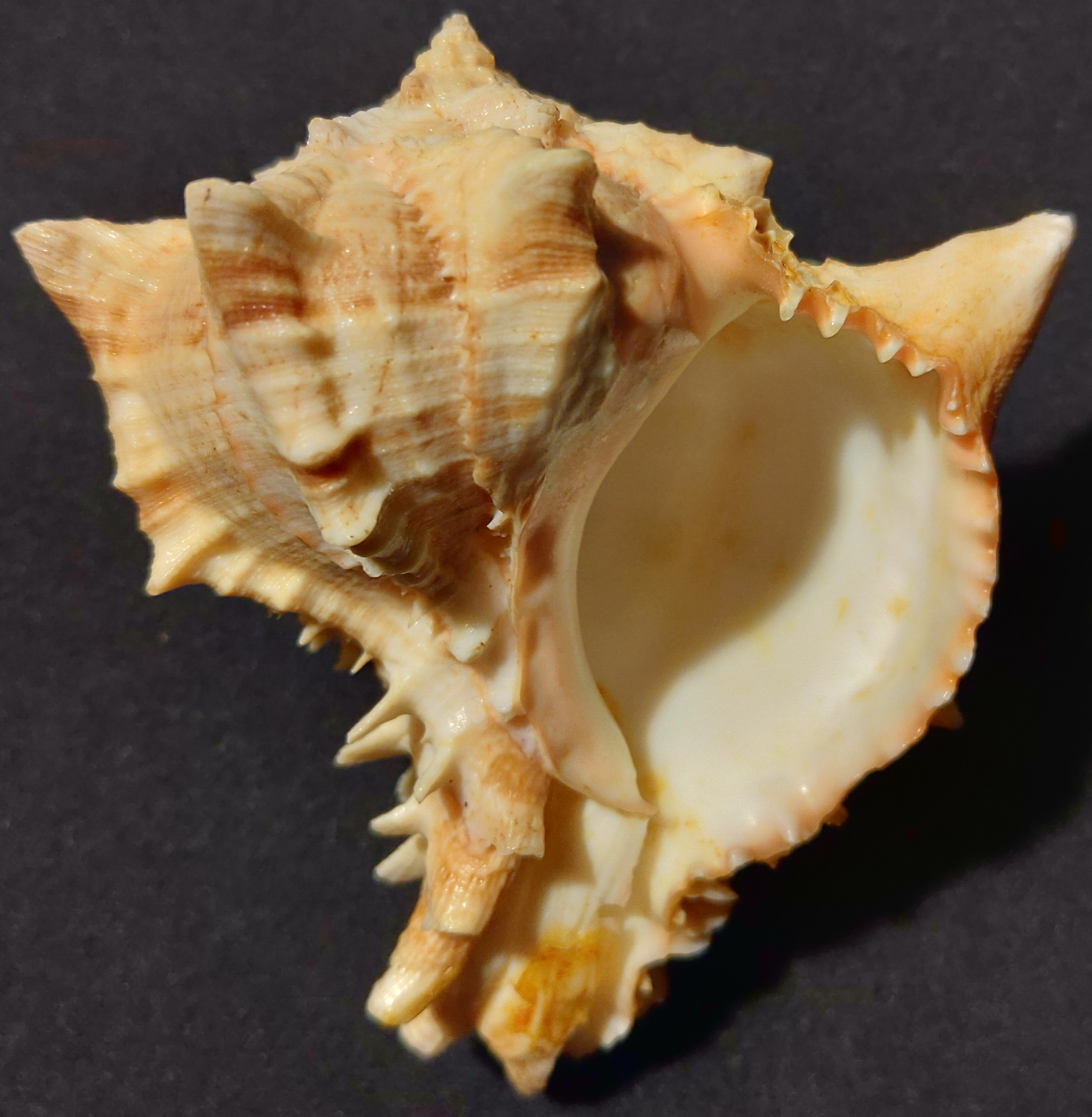 Hexaplex Brassica Front